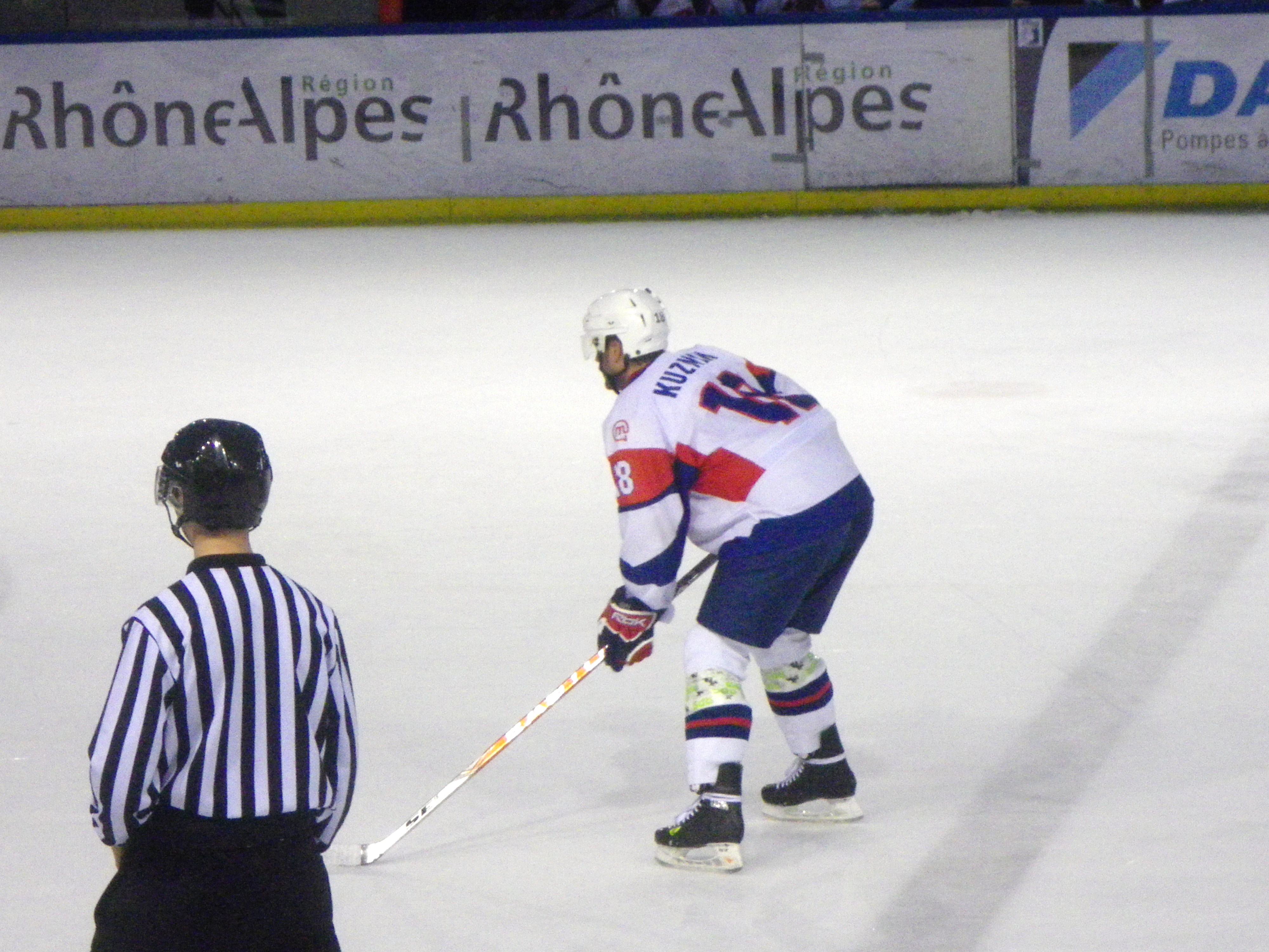 Gregory Kuznik, slovenian ice hockey player